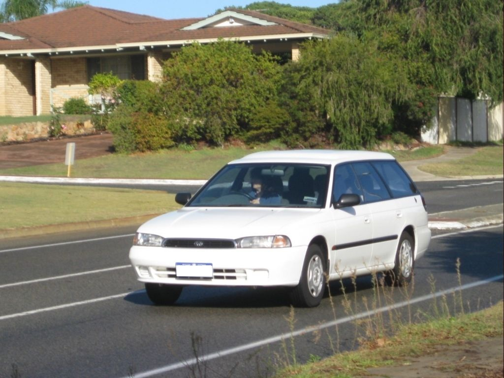 1994–1995 Subaru Liberty (BG7) GX AWD station wagon. Photographed in Perth, Western Australia.